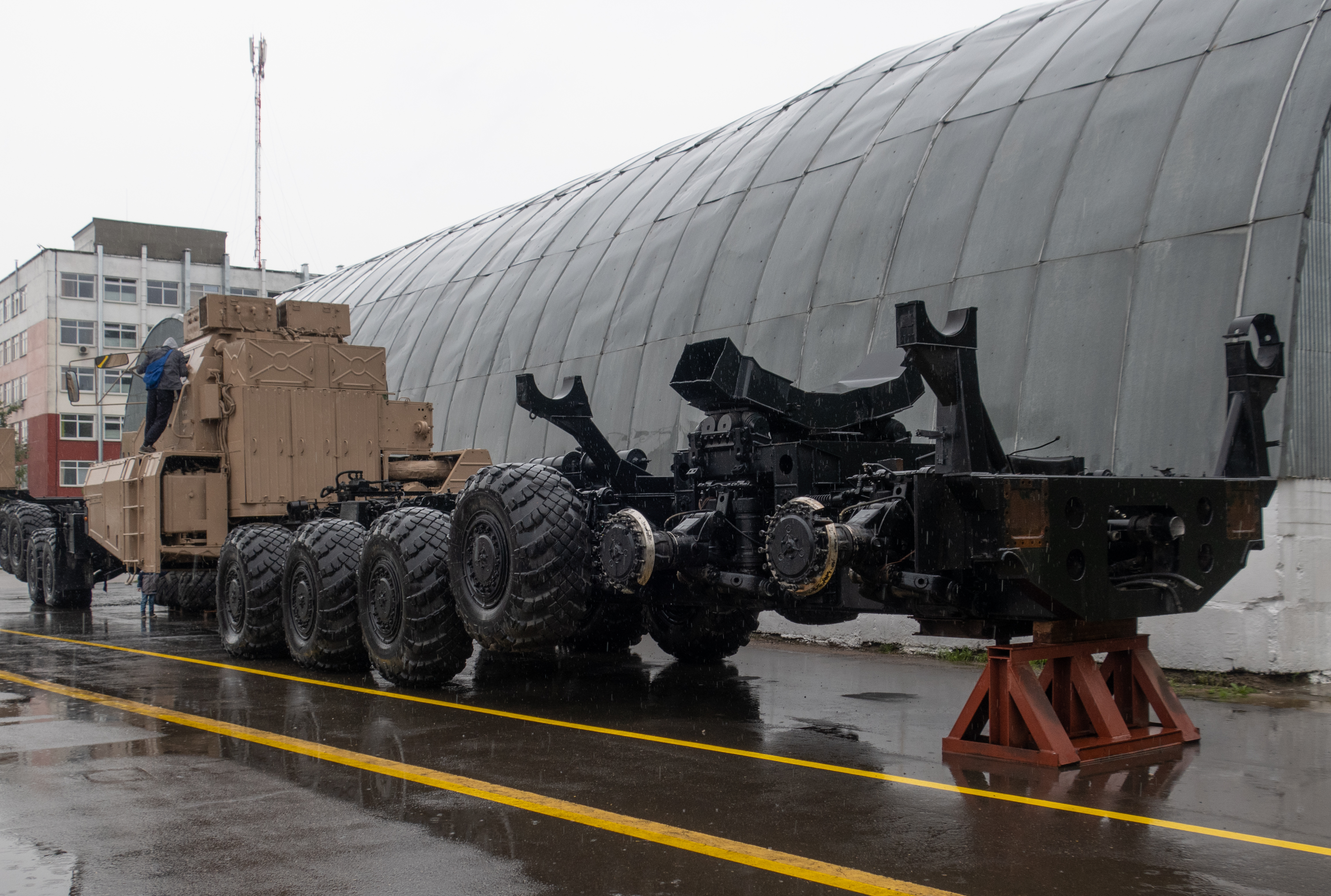 MAZ-7907 rear view.